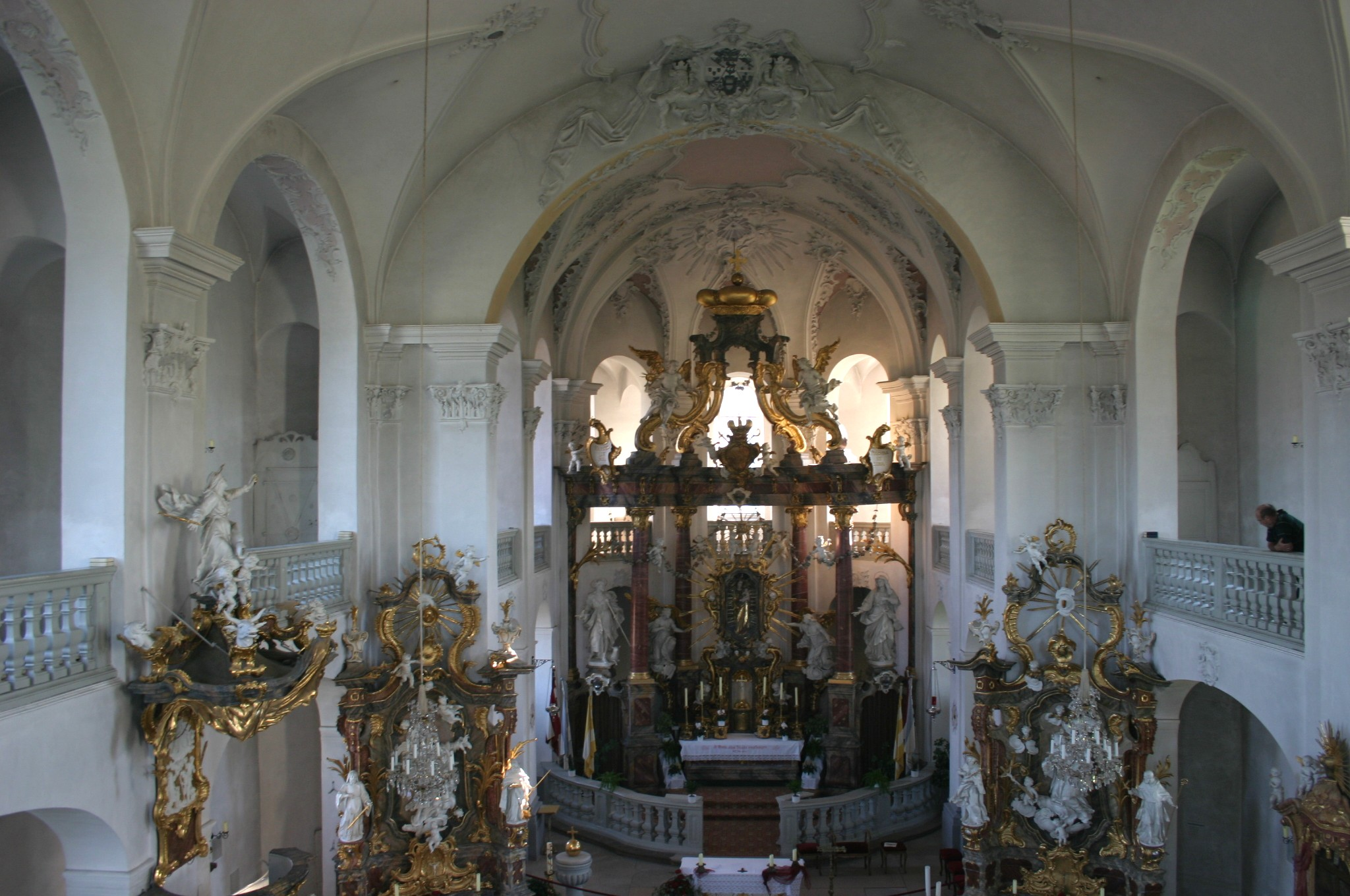 Limbach (Eltmann municipality), interior view of Parish Church and Sanctuary of the Visitation facing south.